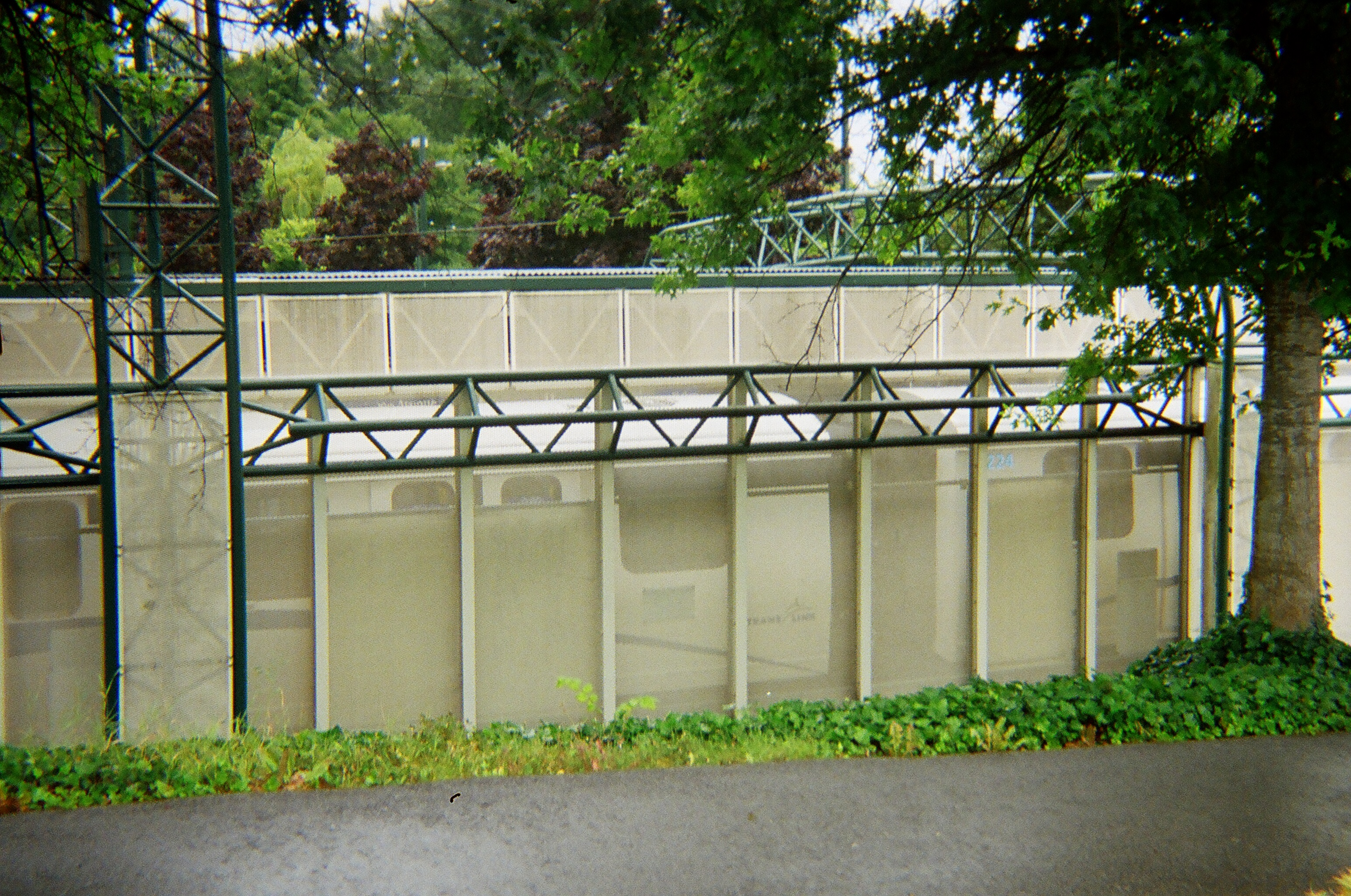 29th Ave Station